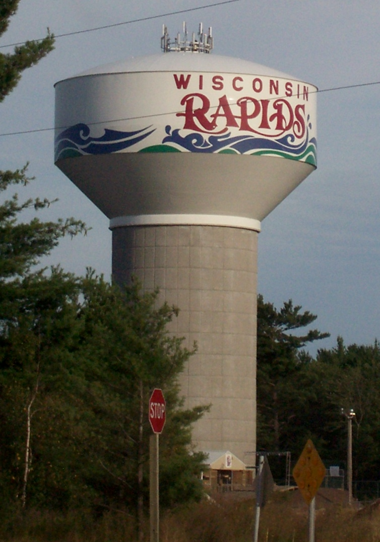 Looking south at the water tower for Wisconsin Rapids, Wisconsin on Wisconsin Highway 54.